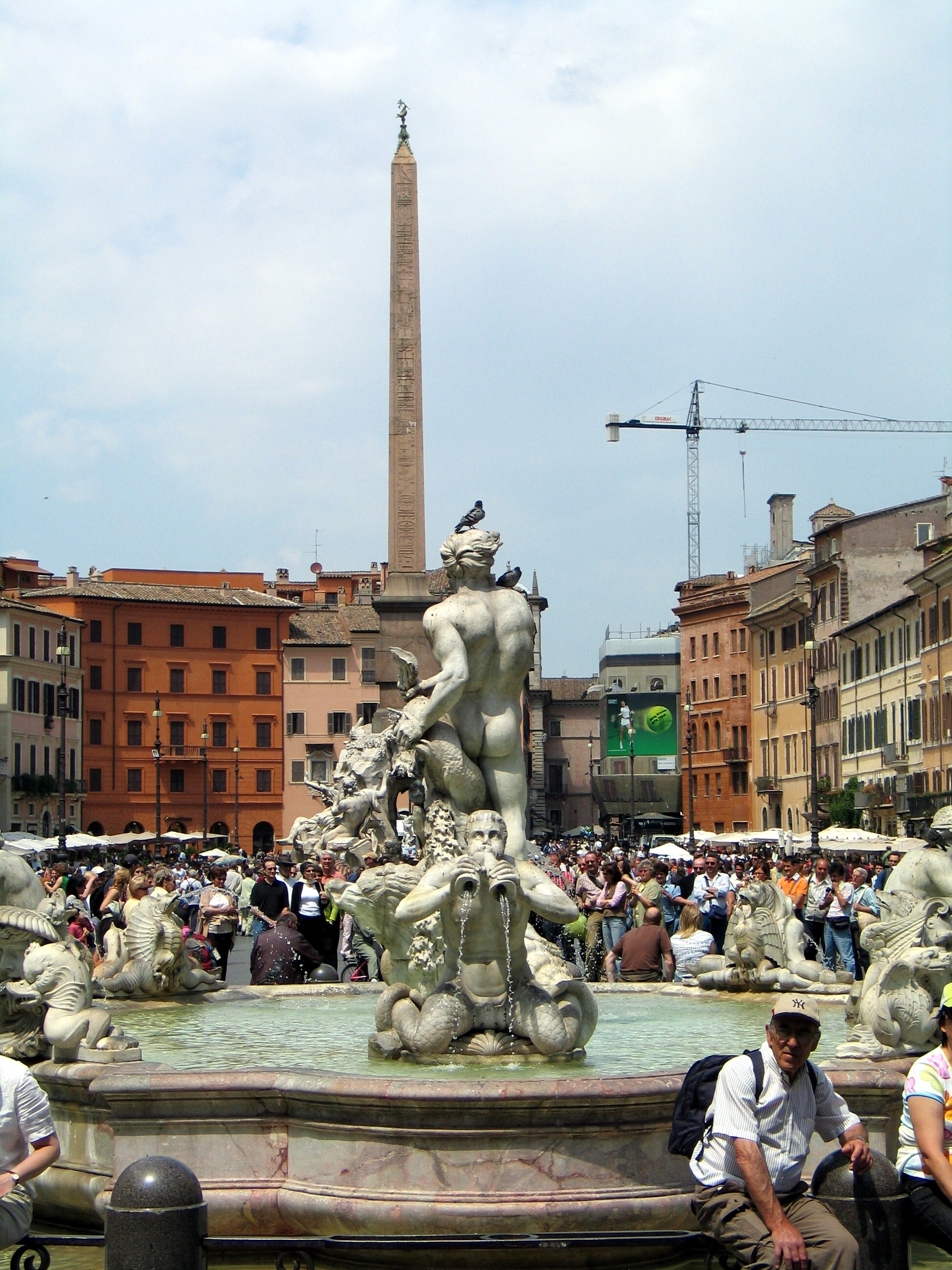 Giacomo della Porta created the fountain with sculpted tritons in 1574-1576, and Gian Lorenzo Bernini redesigned it 1654, adding the central statue "il Moro", an Ethiopian fighting a dolphin. The fountain is situated in the south of Piazza Navona in Rome, Italy.